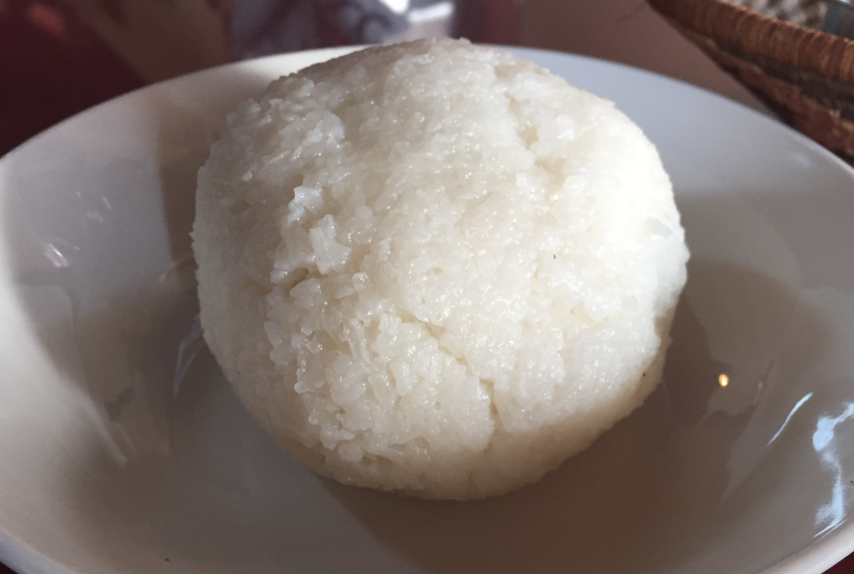 Omo Tuo being served at a Ghanaian restaurant in Colorado